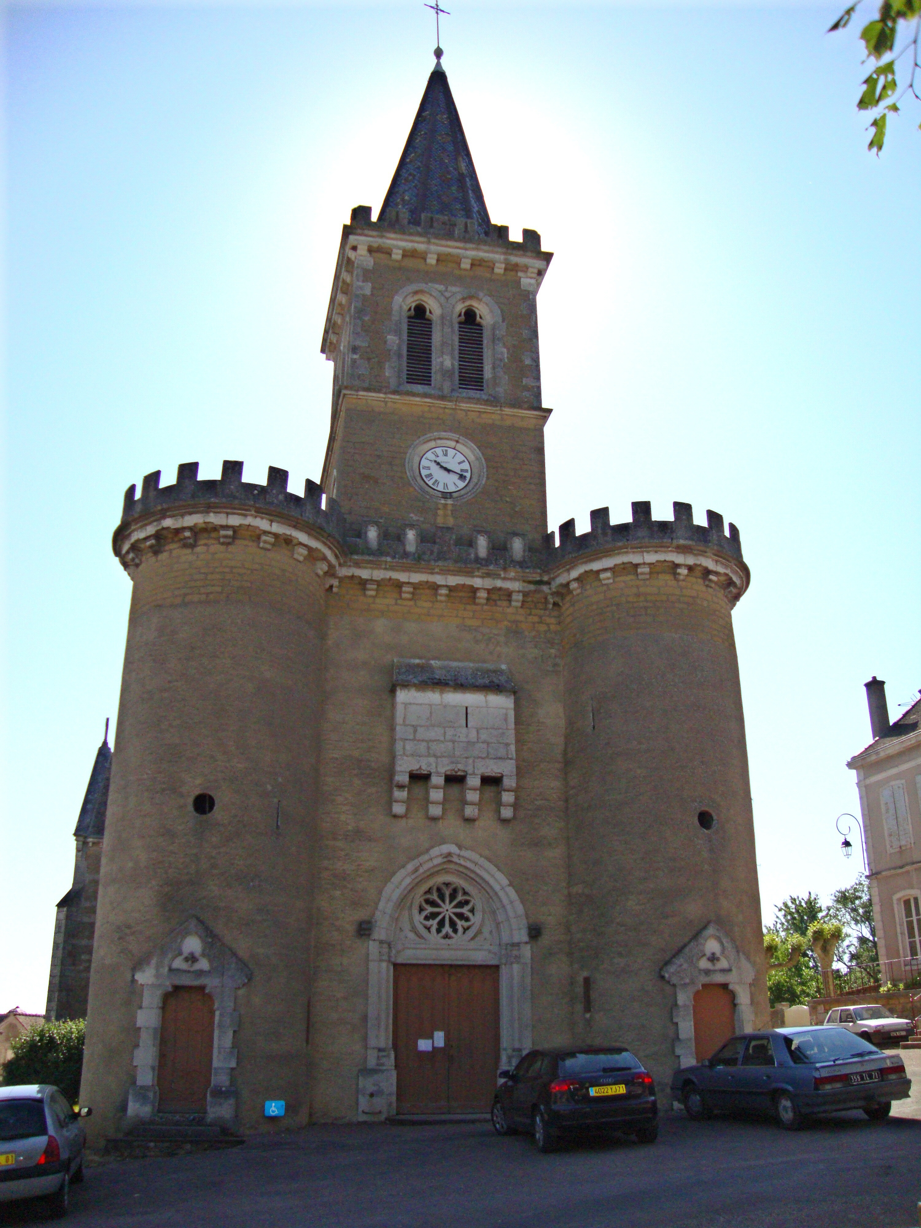 Saint-Désert (Saône-et-Loire, Fr) church